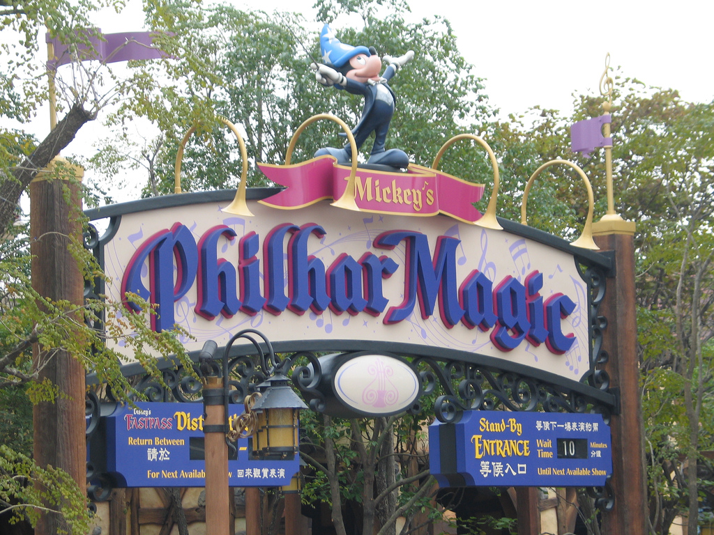 Hong Kong Disneyland Mickey's Philharmagic Theatre by Dave Q